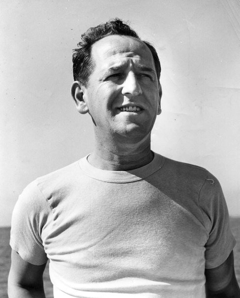 A young photo of Louis Effrat